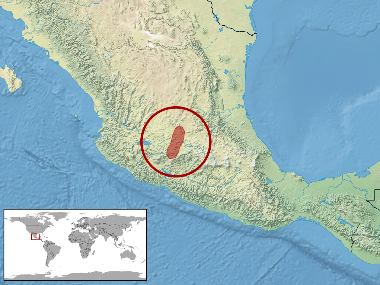 geographic distribution of Plestiodon dugesii